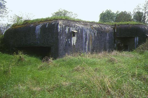 The back frontage at Casemate of Rountzenheim South